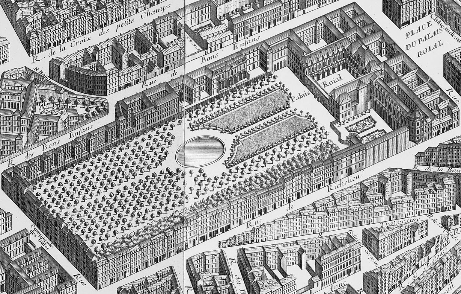 View of the Palais-Royal as depicted on the Turgot map of Paris